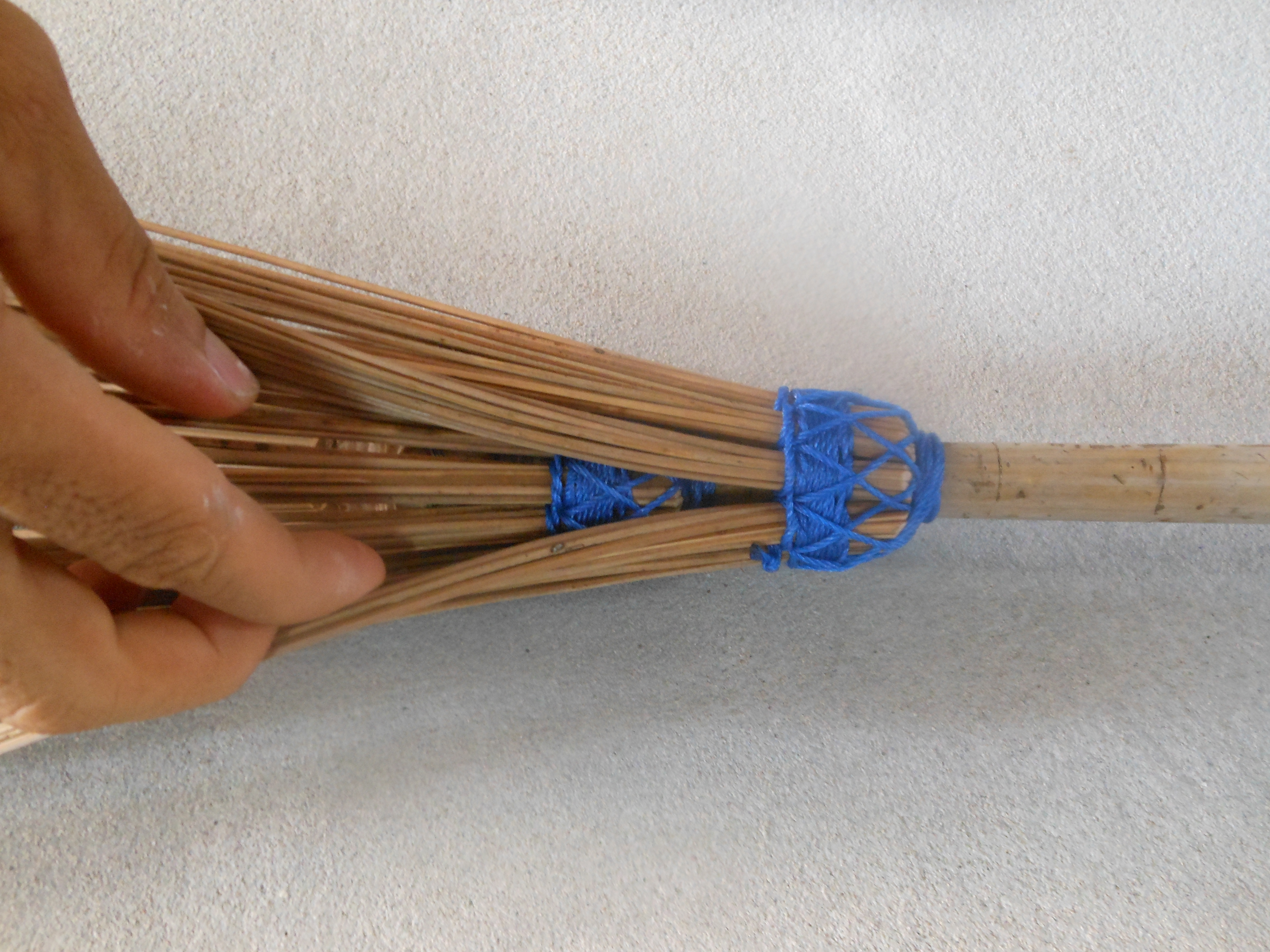 Show the rope tied completed